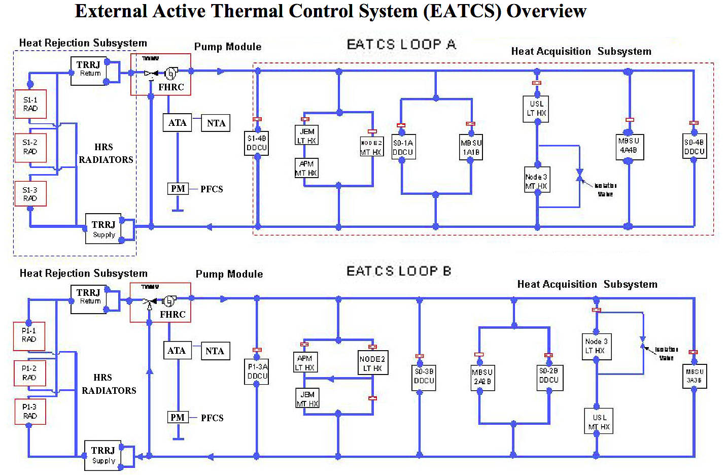 EATCS Overview